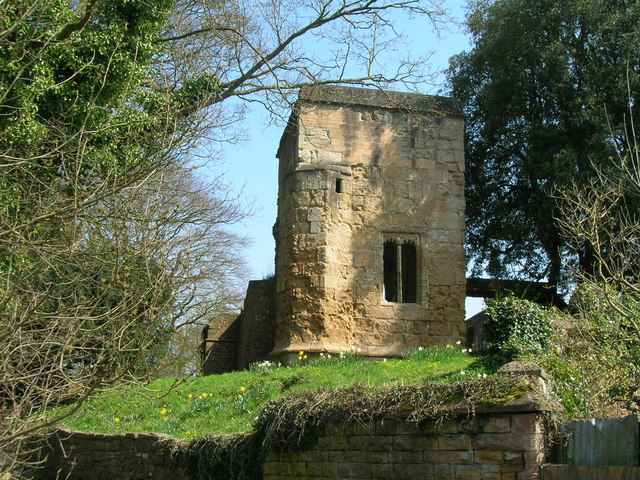 Ruin of 12th-century All Saints' parish church, Annesley Park, Annesley, Nottinghamshire